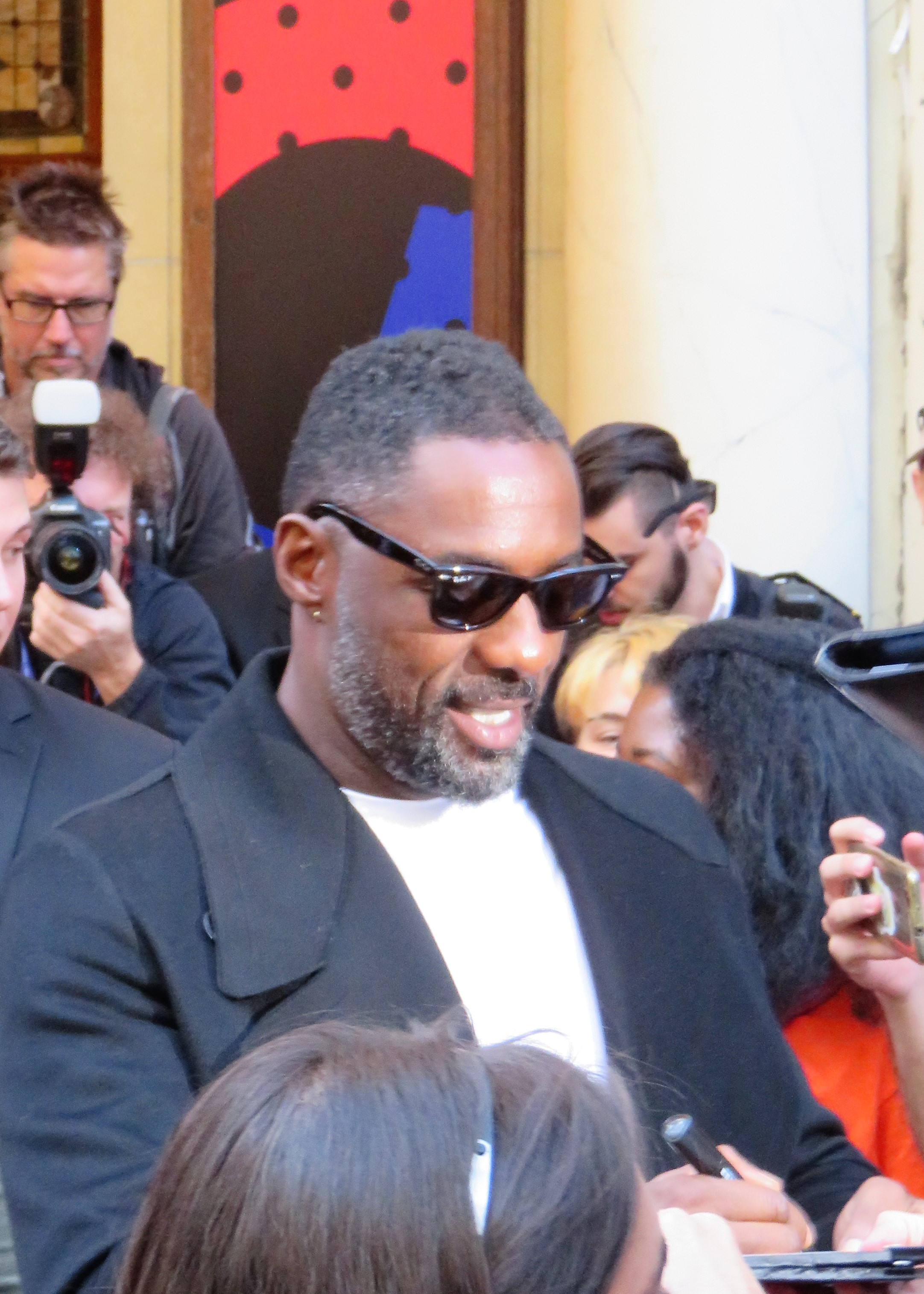 Idris Elba at the premiere of Molly's Game, 2017 Toronto Film Festival